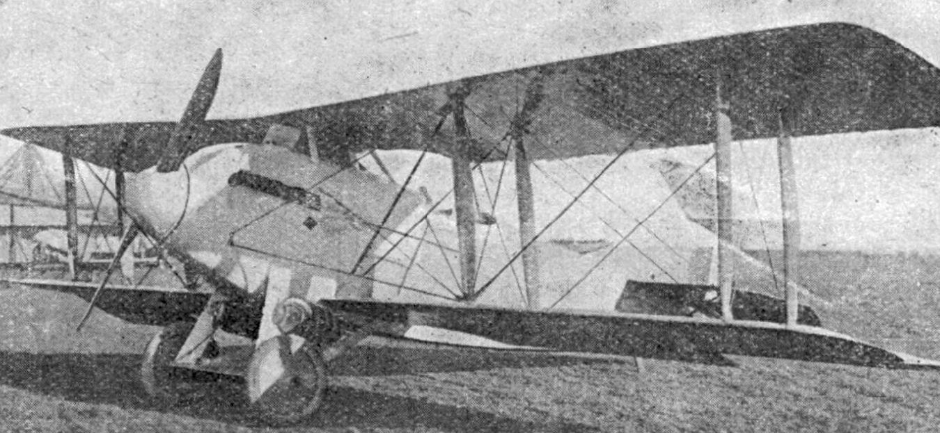 Borel C.2 photo from L'Aéronautique January 1921